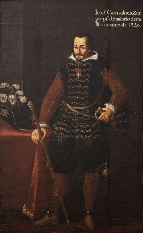 João Gonçalves Zarco, 1st Captain-major of Funchal, Madeira. 18th-century portrait (copied from a 1580-1620 original), in the Palace of São Lourenço, Funchal.